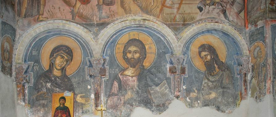 Fresco in the St. George Church in Pološko Monastery, Macedonia